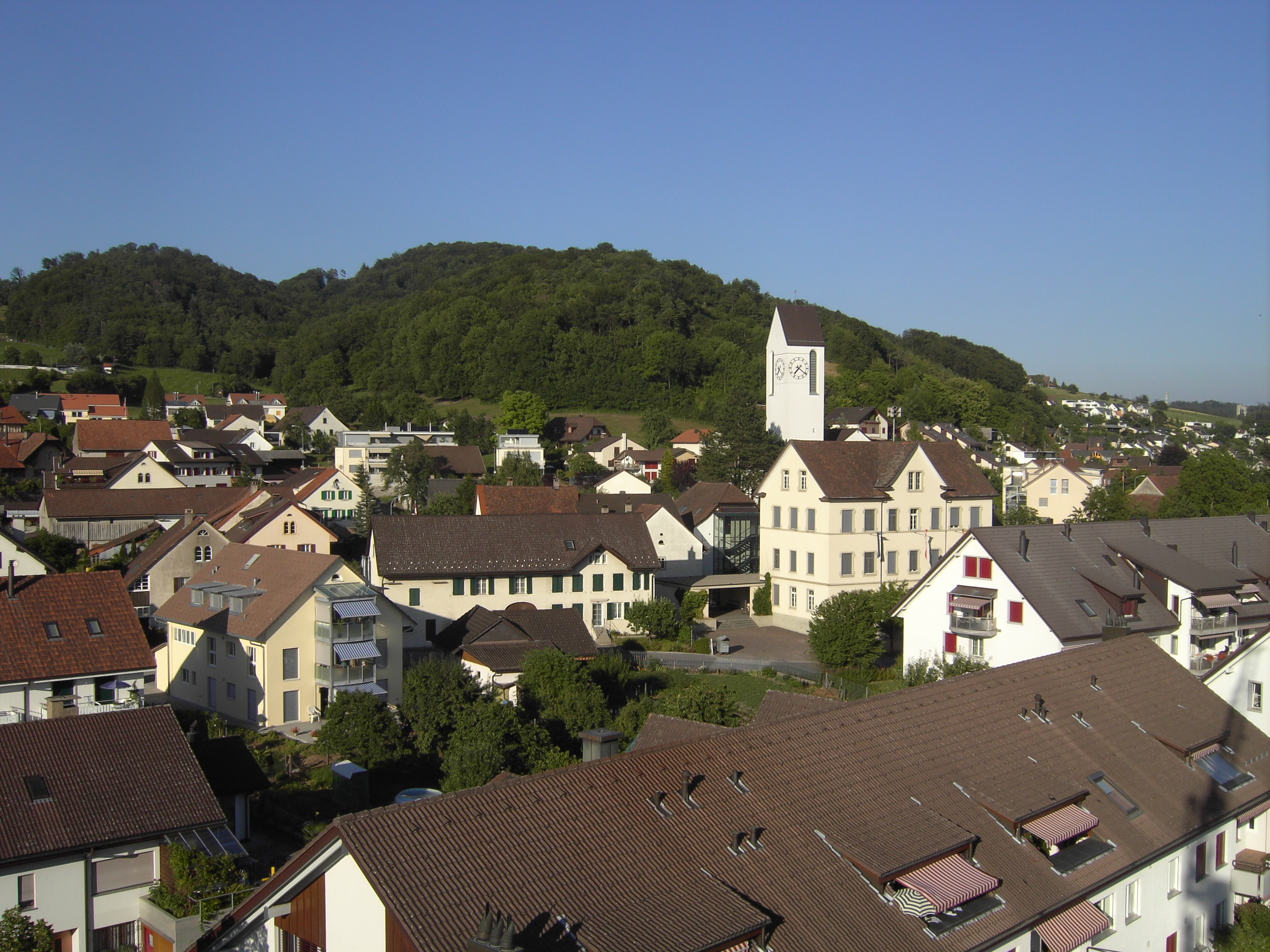 Birmenstorf - view to the rom.-catholic church